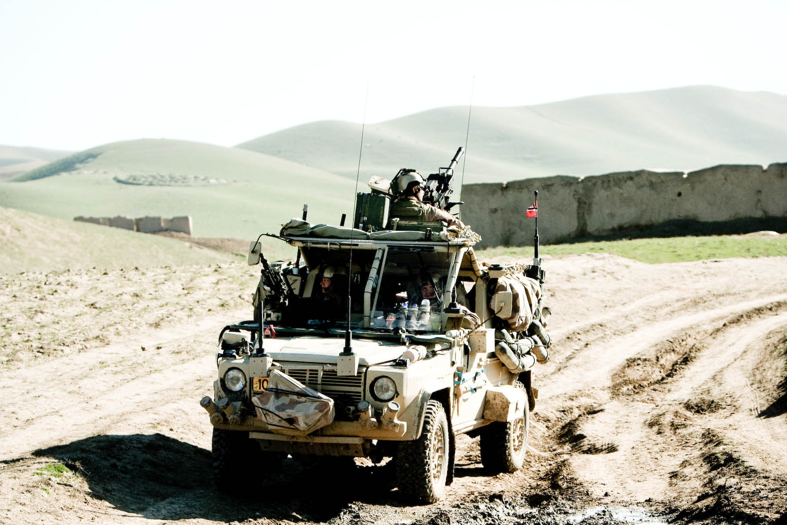 Norwegian soldiers on patrol in Faryab province, Afghanistan.